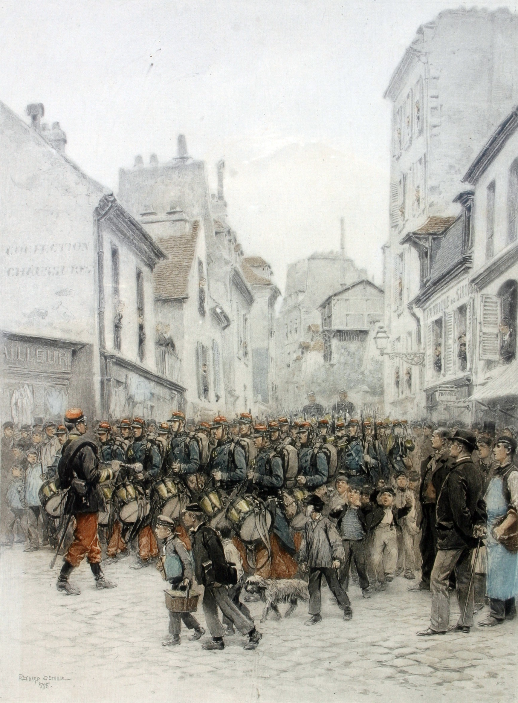 Print by Edouard Detaille (1848-1912)